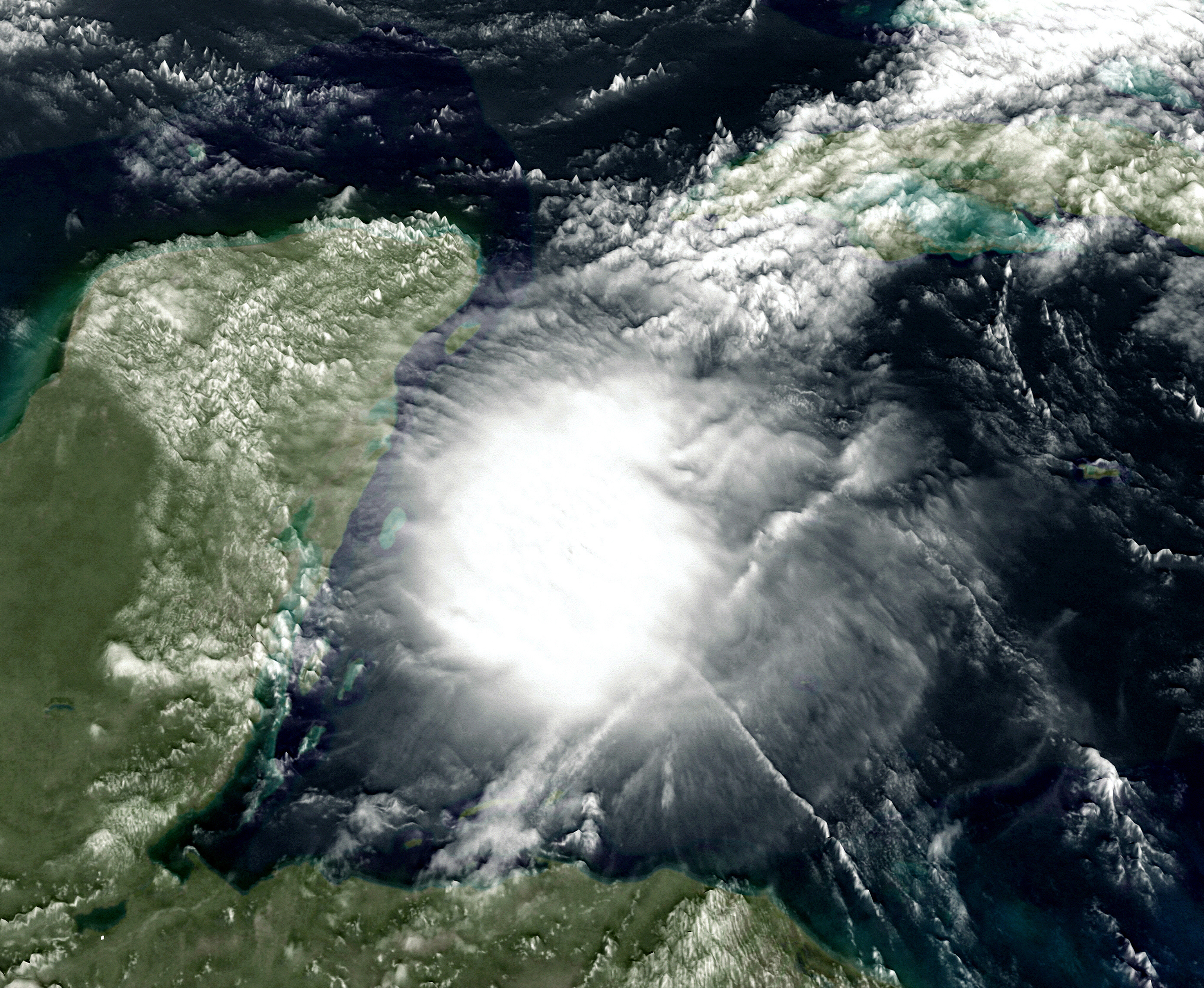 Tropical Storm Agatha after crossing central America on June 1, 2010.